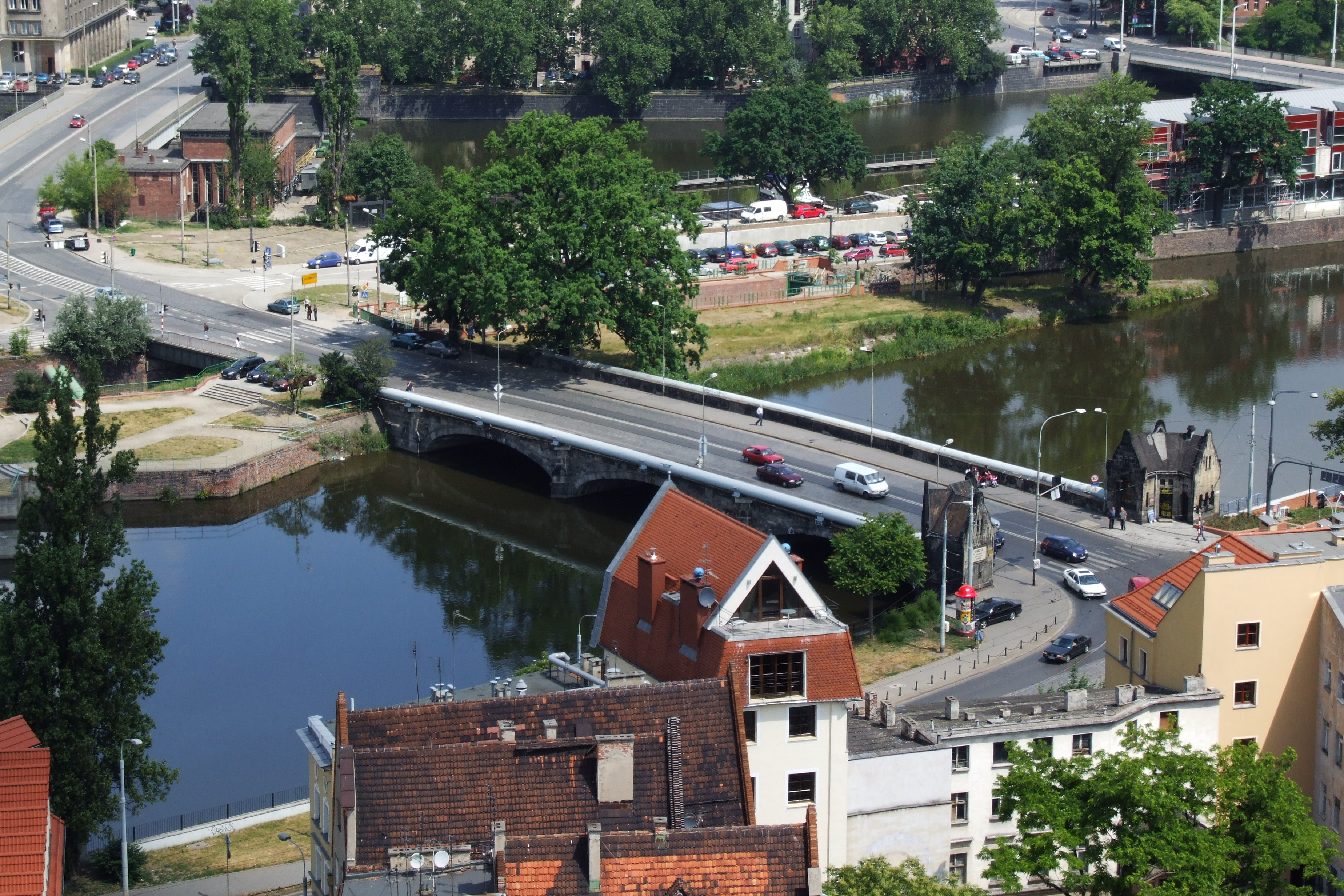 Pomerania Bridge in Wrocław (Breslau)